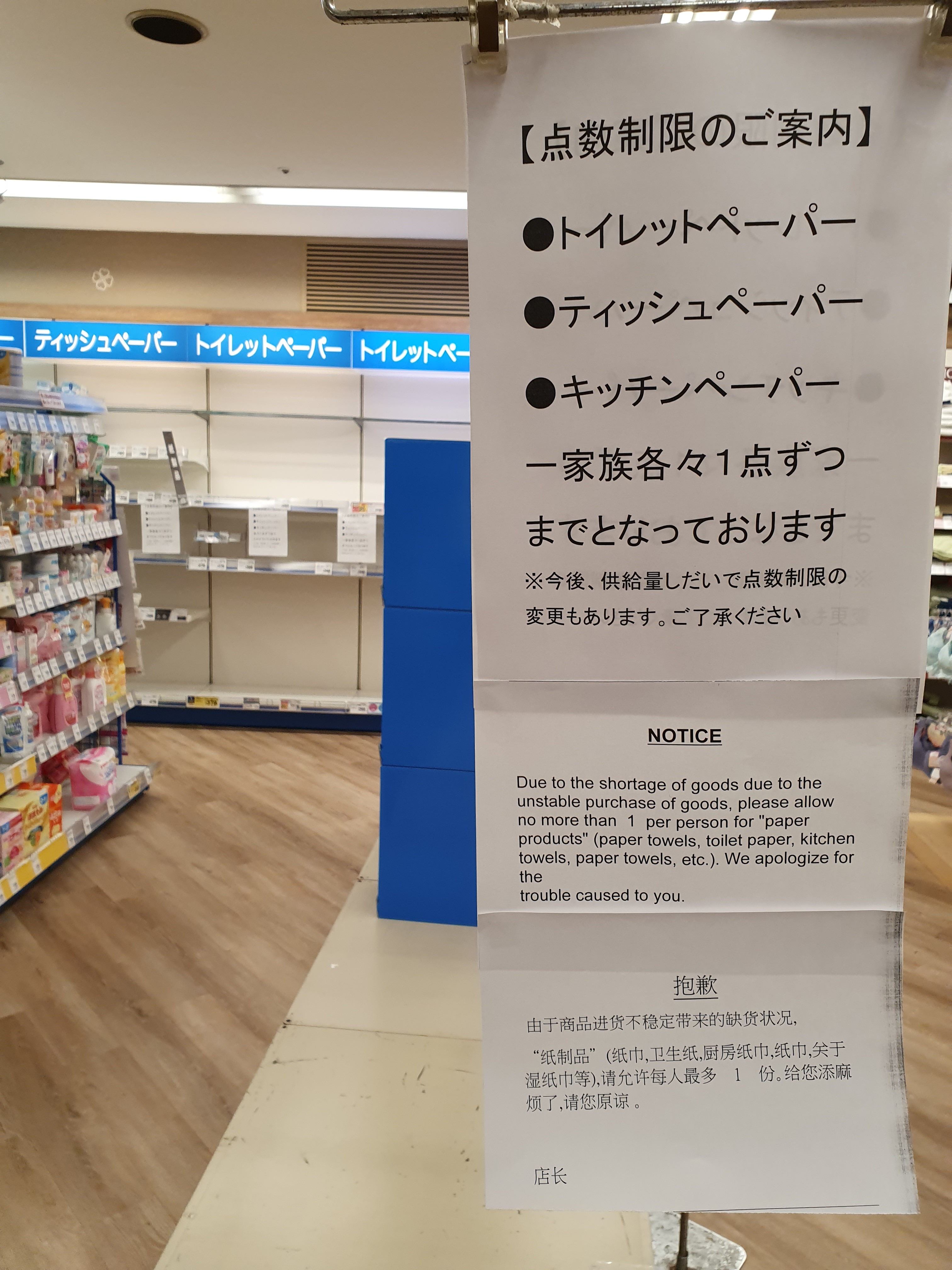 A rumour said paper-based products would disappear due to paper being used for masks